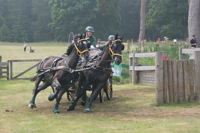 Sandringham Estate Carriage racing on the estate. This 'gate' was at The Loch.